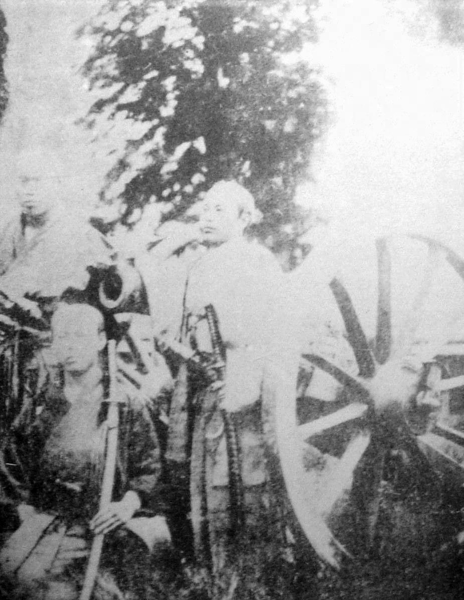 From the right, Japanese men 大鳥圭介, 安達敬三郎, 篠原太郎 (Keisuke Otori...etc)